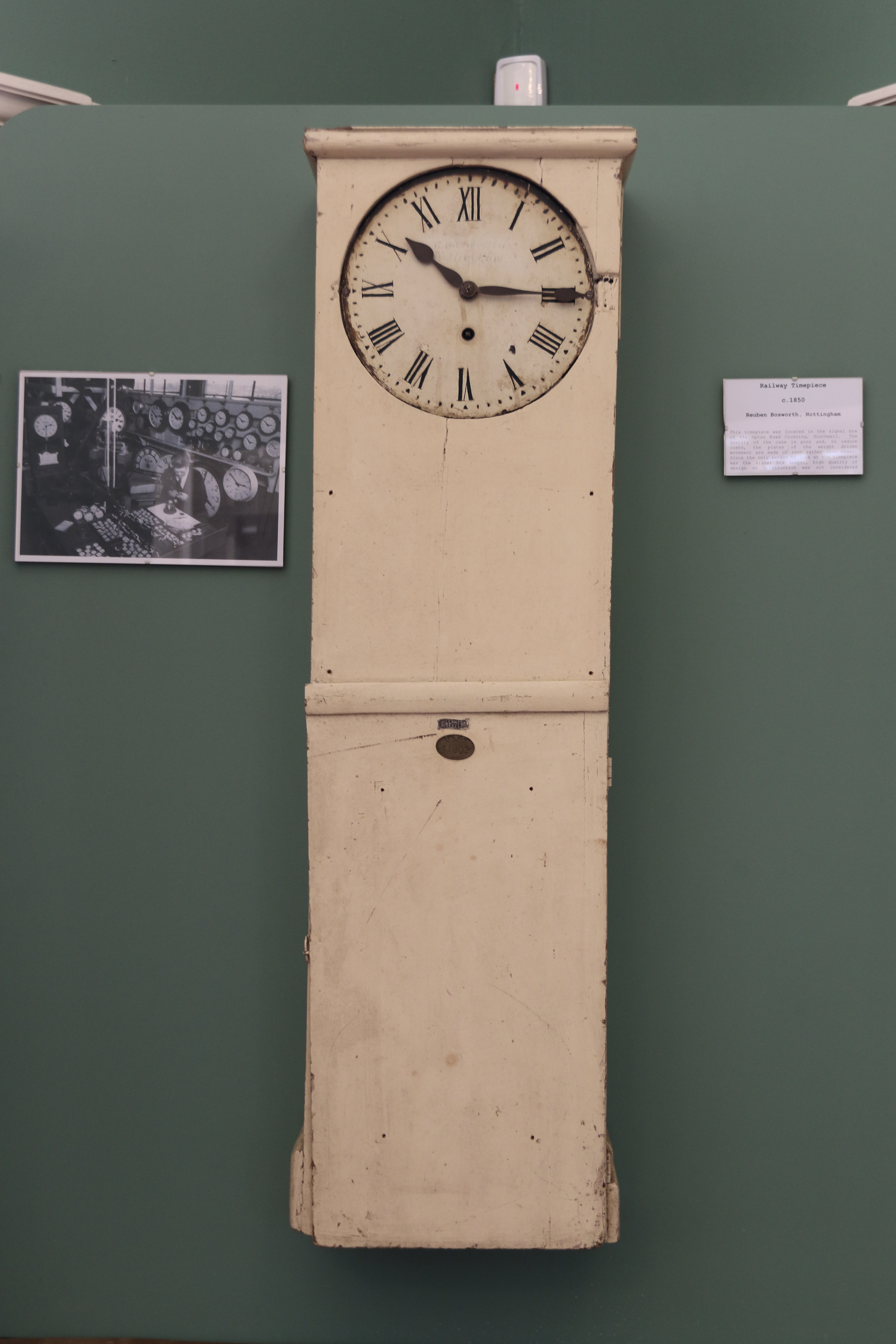 Clock dating from ca. 1850 made for the Signal Box at Upton Road crossing, Southwell, by Reuben Bosworth for the Midland Railway Company